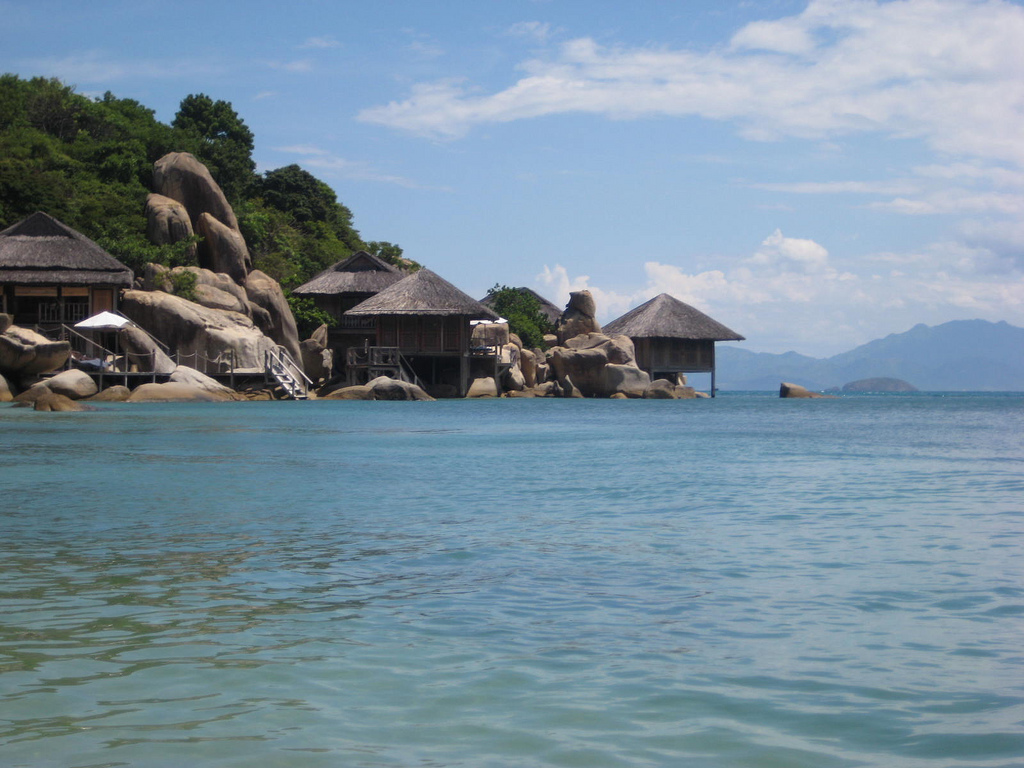 Evason Hideaway Resort, Ninh Hoa, Vietnam